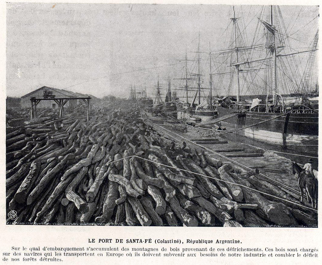 picture of deforestation (beginning of XX centuries), in an old book made about importance of trees, written for children in french schols (this picture is comming from the second edition (in 1921). The book named "Manuel de l'arbre" was published by the french association 'Touring-Club de France".